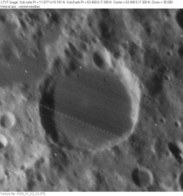 Firmicus lunar crater - Lunar Orbiter - IV image LO-IV-184H LTVT